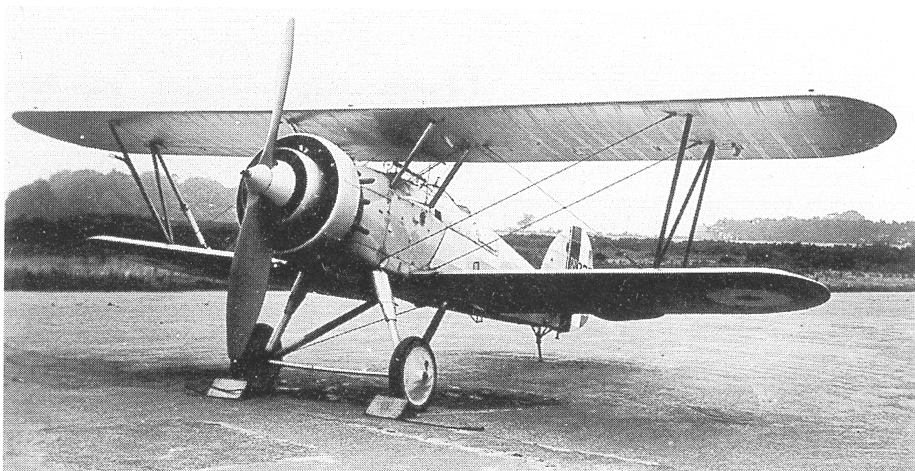 The sole Hawker Hoopoe N237 in May 1931 with Armstrong Siddeley Panther III engine in double Townend rings and with single bay wing strutting.